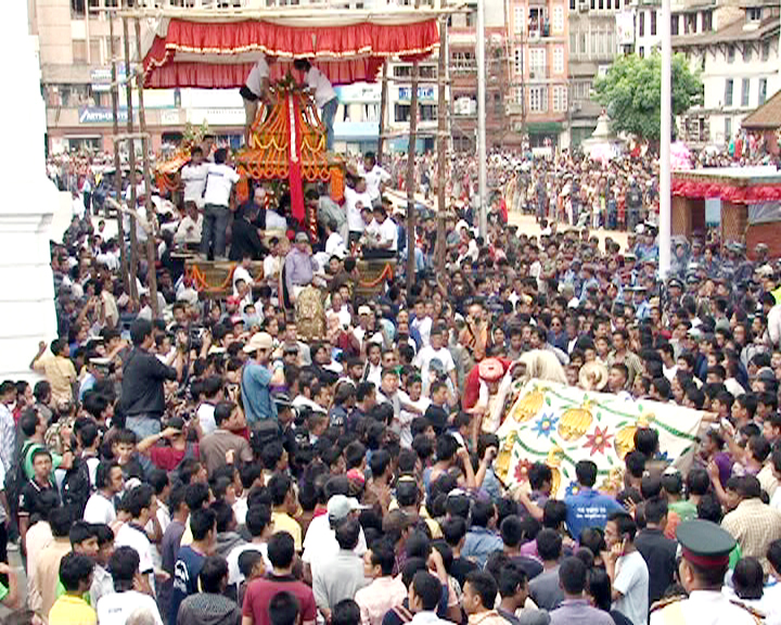 Pulikisi dance performed during Indrajatra in Nepal.